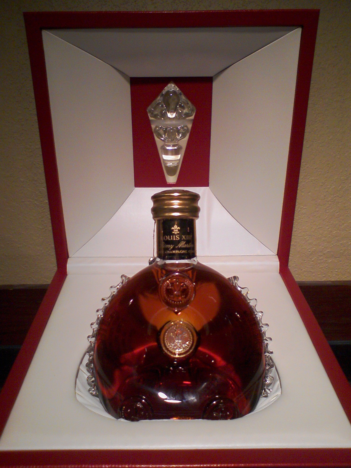 A presented bottle of Louis XIII de Rémy Martin